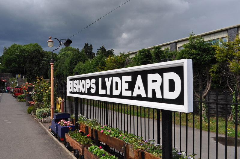 Bishops Lydeard Station Sign, Data from Geograph: Description: A view of the sign under gloomy weather. Most people were on the other platform waiting for the incoming western hydraulic diesel (they don't interest me). ICBM: 51.054056043729, -3.1941449008126 Location: (about 0 km from) near to Greenway, Somerset, Great Britain.